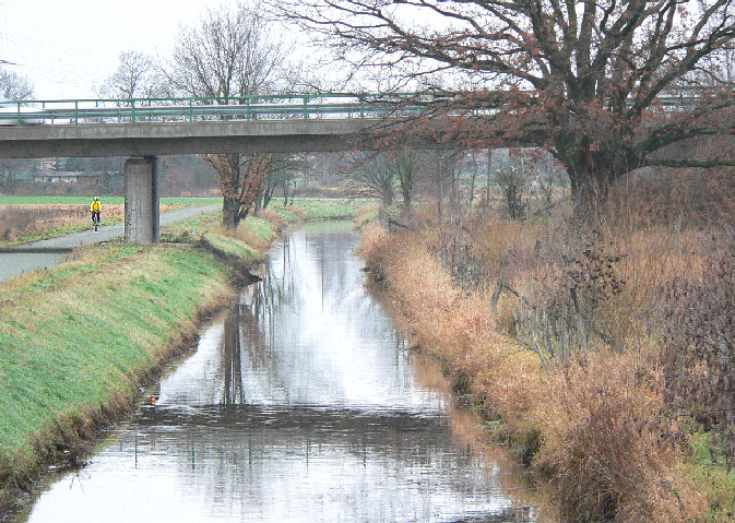 The Kleine Aller river near Wolfsburg-Warmenau, passing under the B 188 federal road, Lower Saxony, Germany